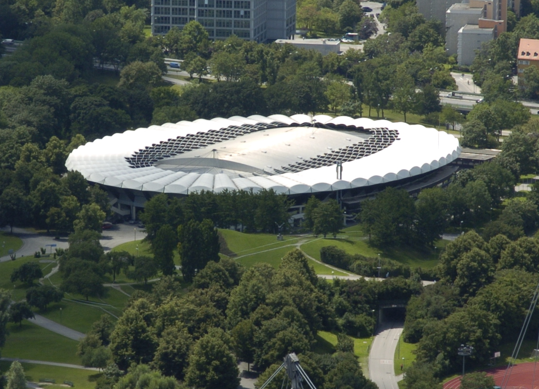 Radstadion im Olympiapark München